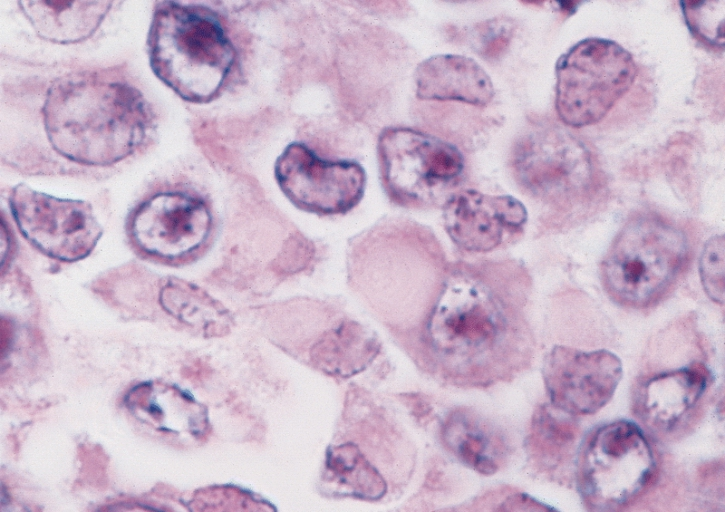 KIDNEY-BLADDER-URINARY: RHABDOID TUMOR Characteristic appearance in well-fixed, routinely processed sections.